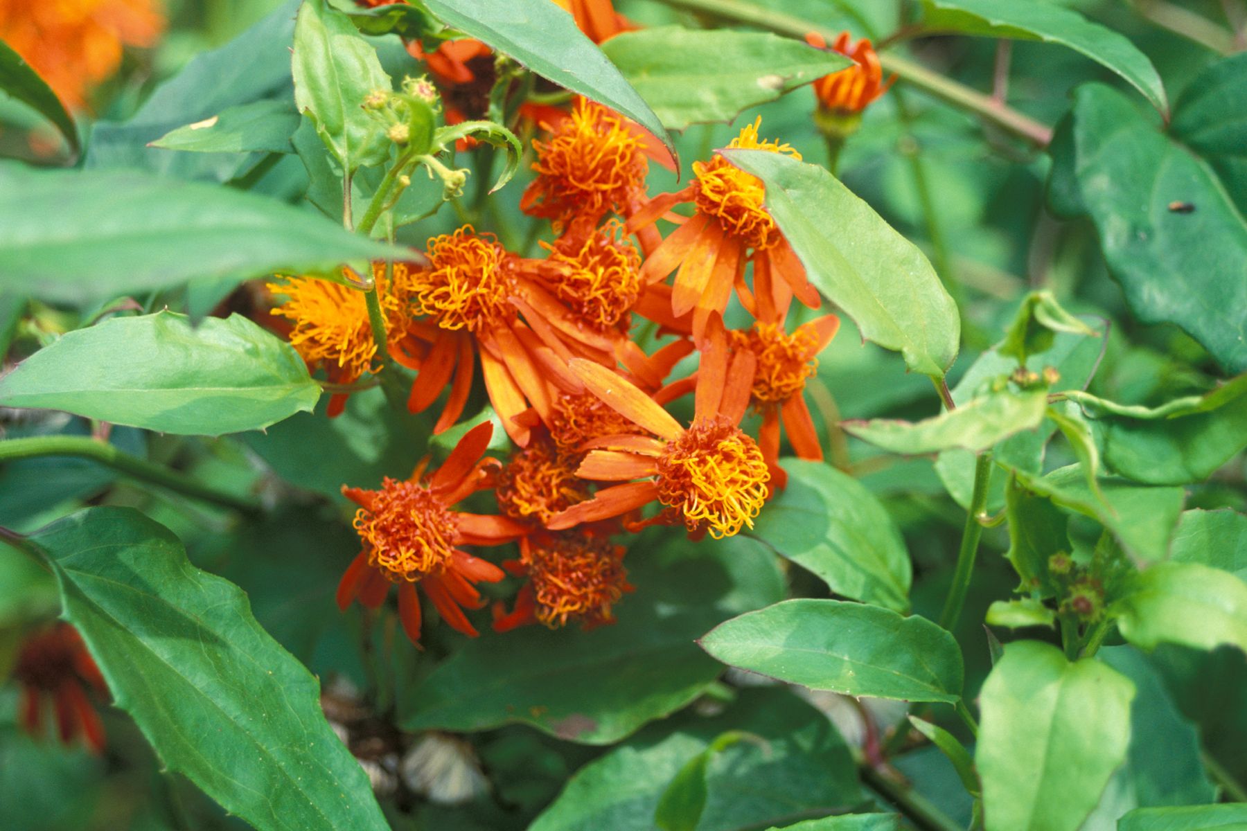 Pseudogynoxys chenopodioides (flowers). Location: Maui, Hana